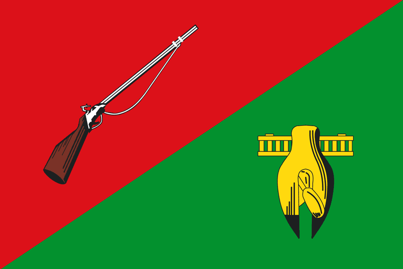 Stary Oskol (Belgorod oblast), flag